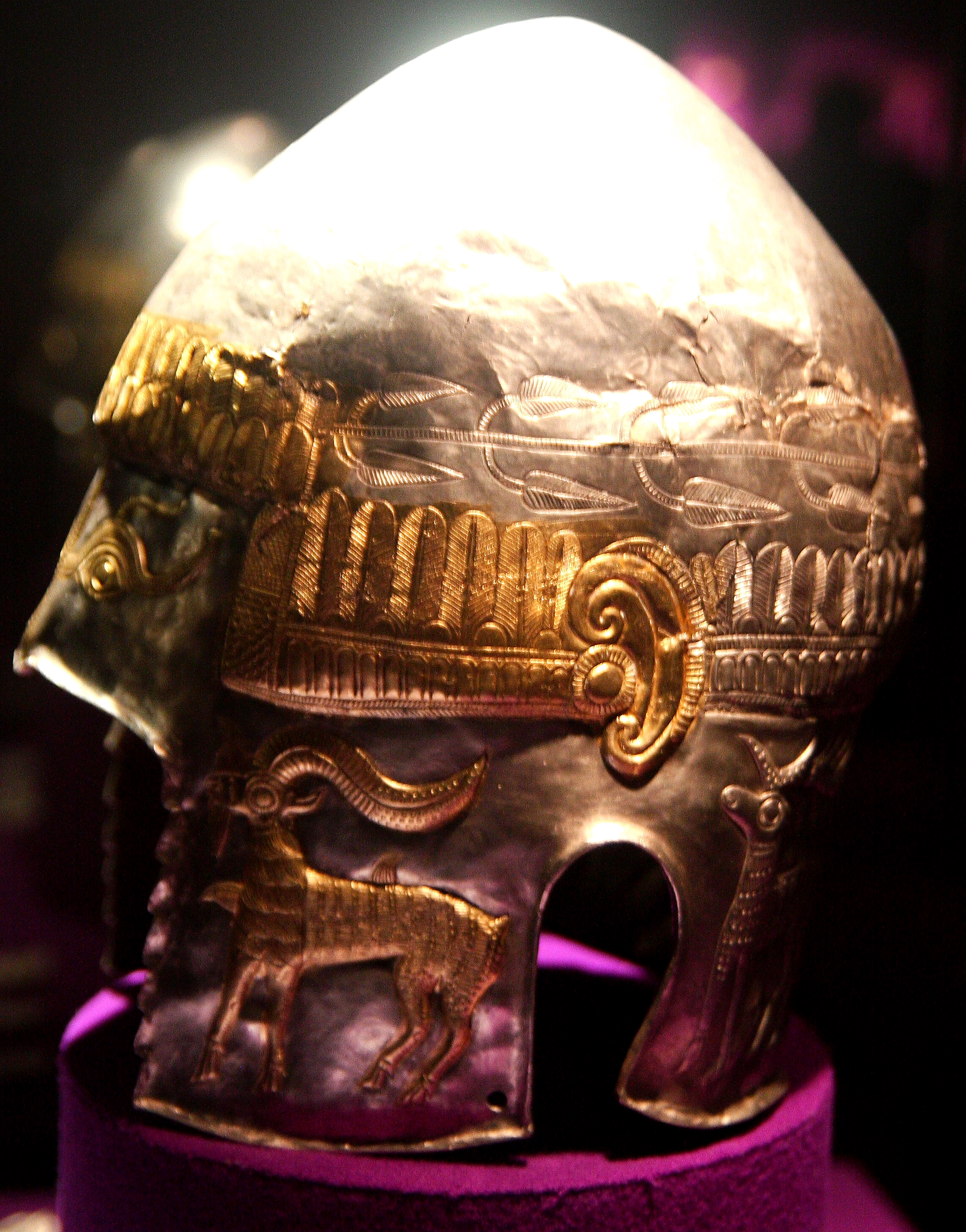 Traco Getic Helmet exposed in Romanian National History Museum